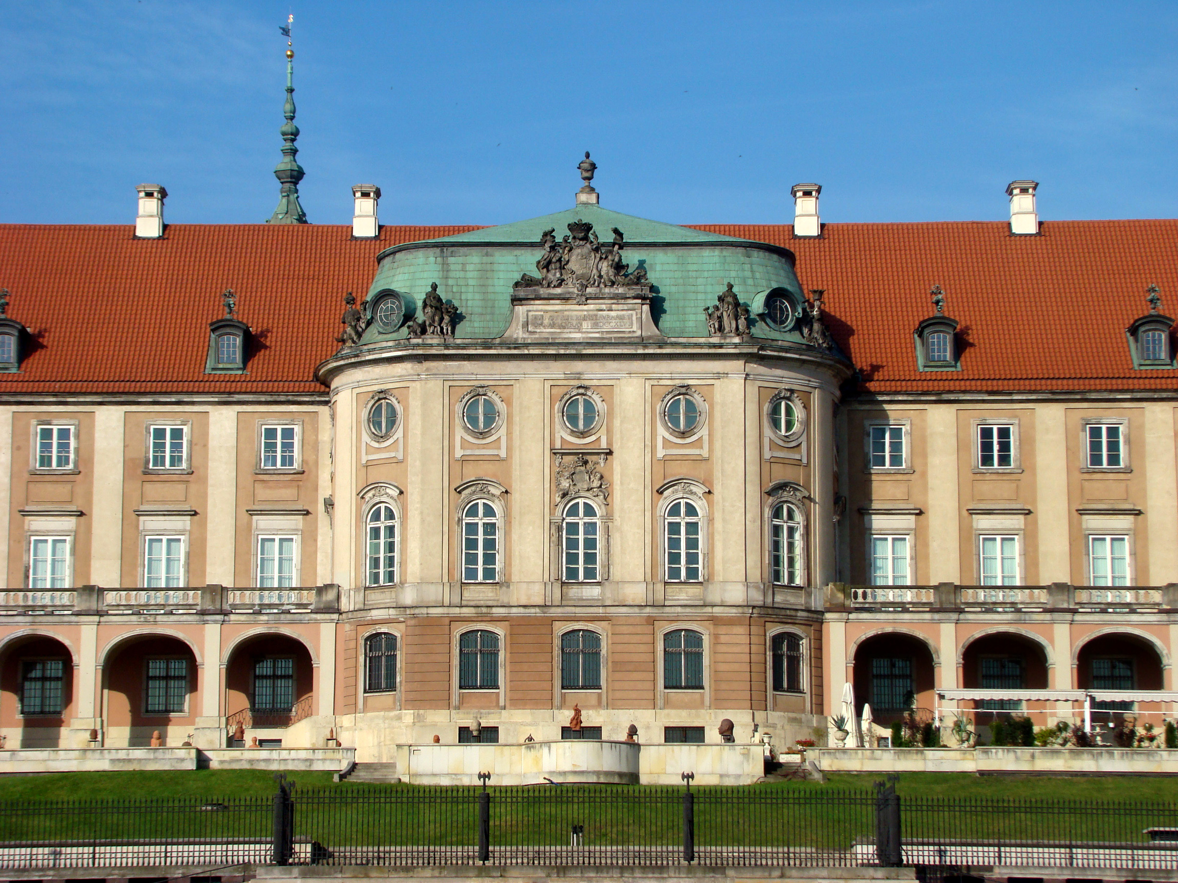 Royal Castle, eastern facade (close-up), Warsaw